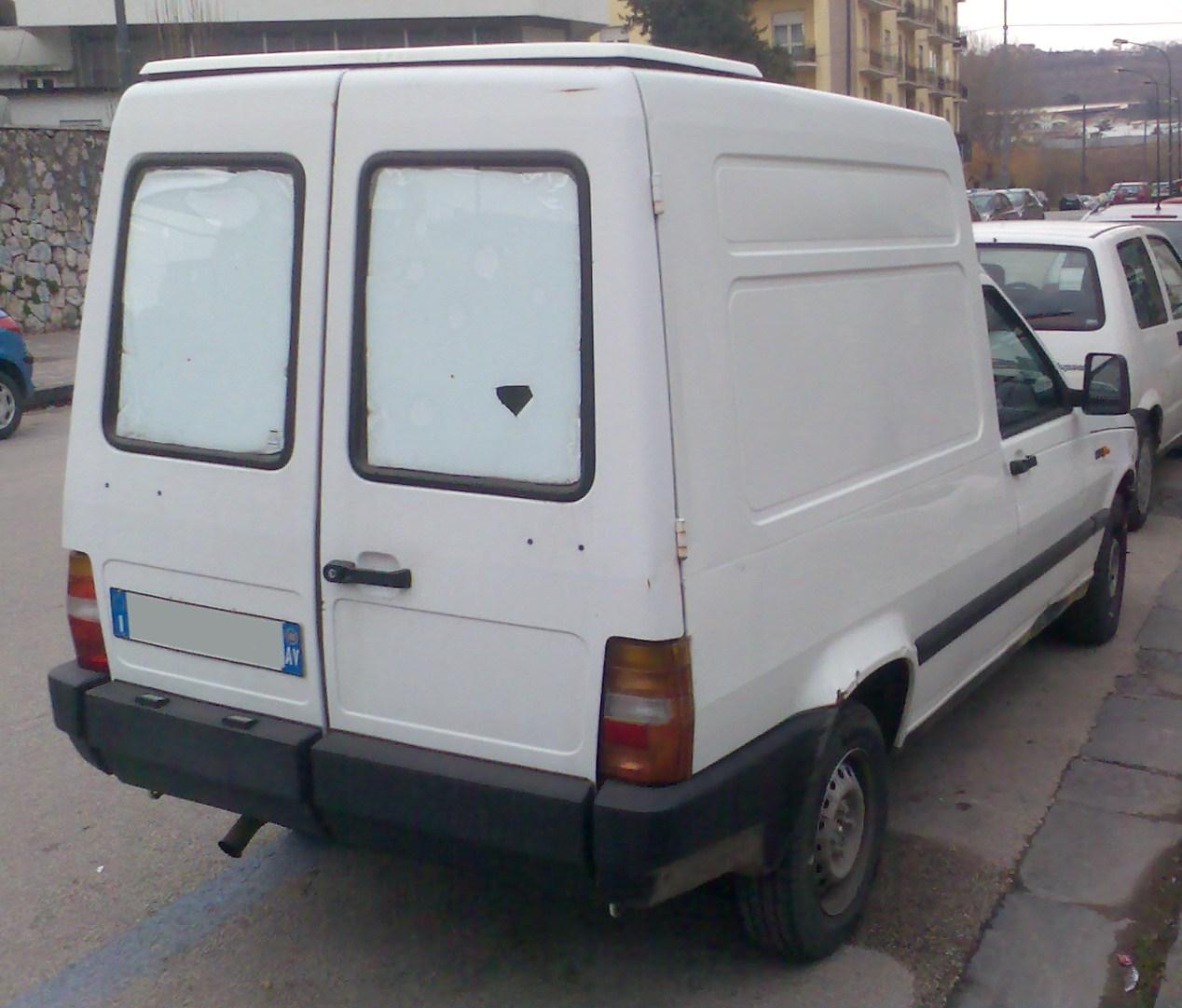 2000 Fiat Fiorino